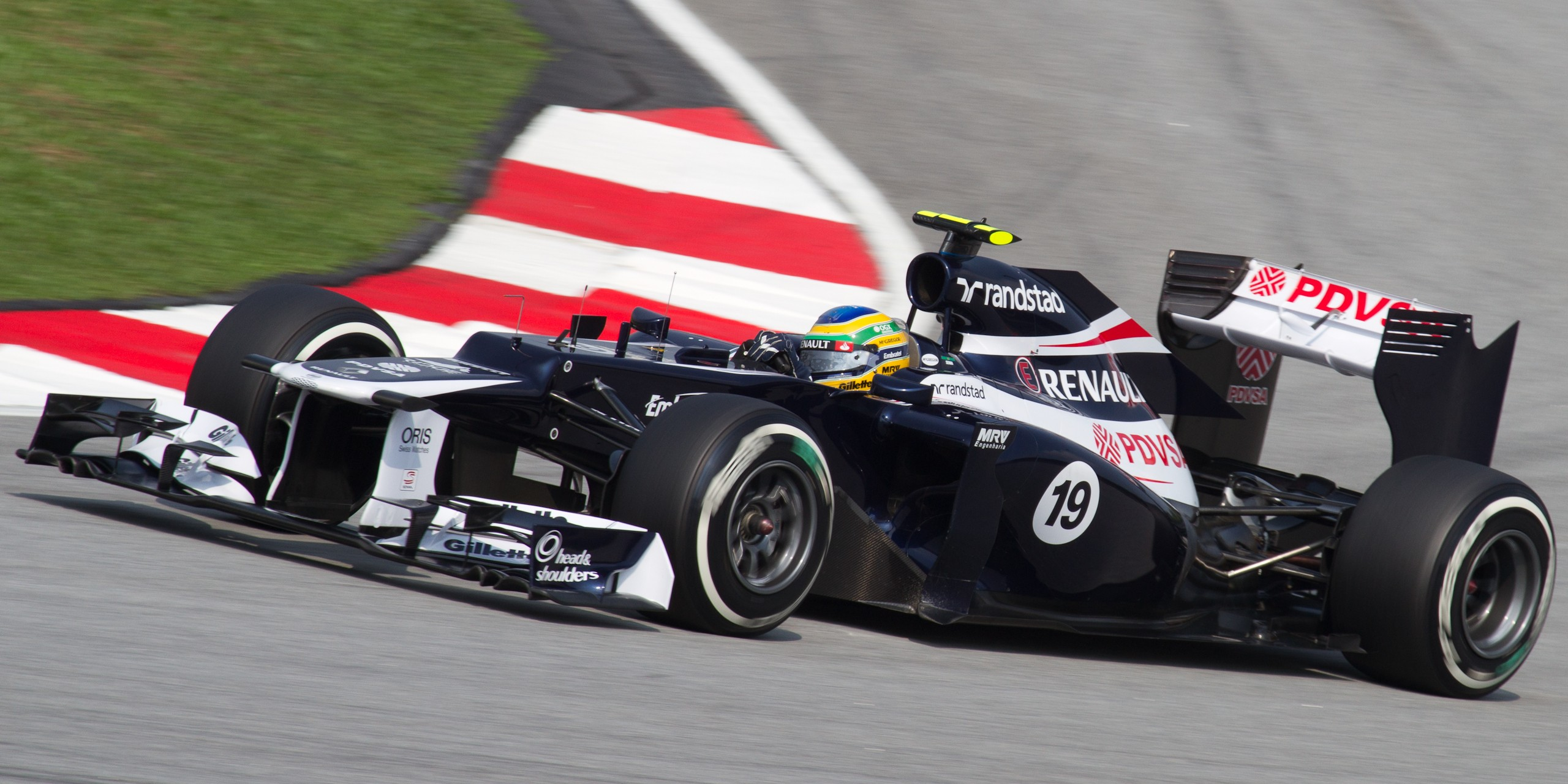 Formula One 2012 Rd.2 Malaysian GP: Bruno Senna (Williams) during the qualify session on Saturday.